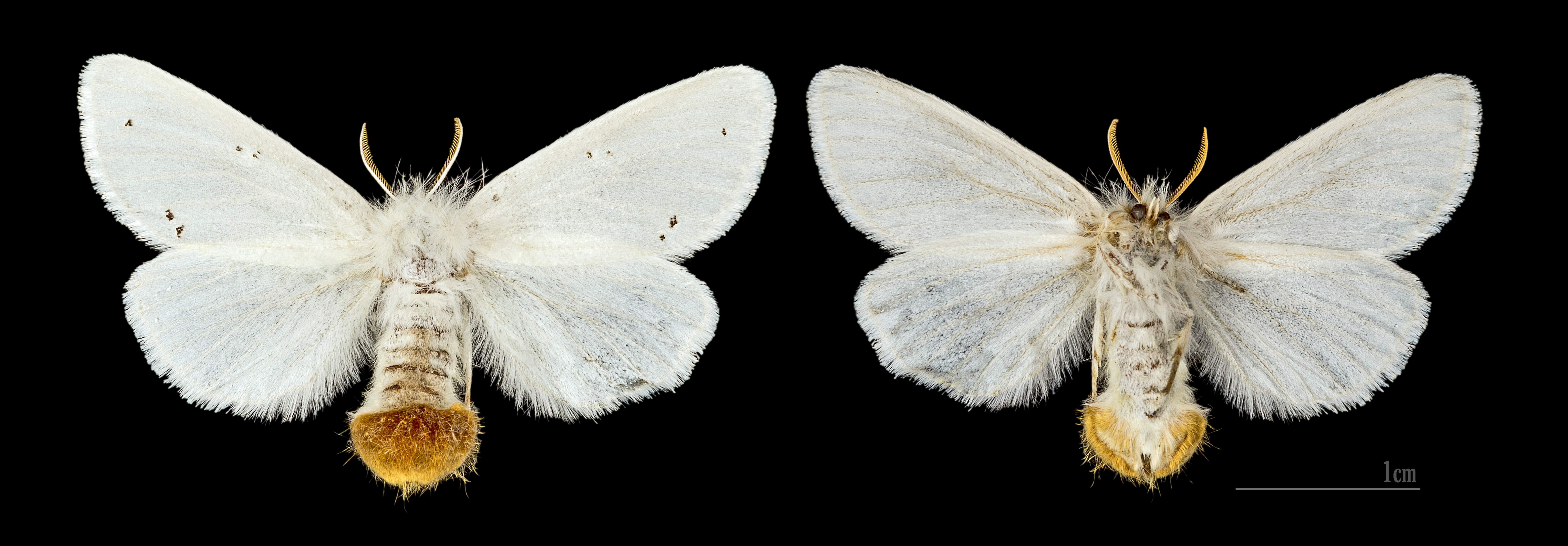 Brown-tail. Two views of same specimen